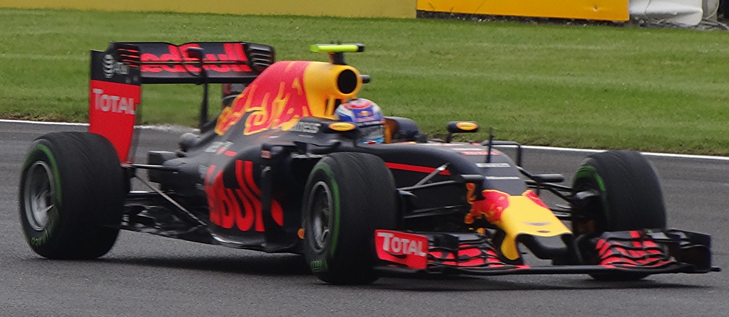 Max Verstappen in the Red Bull RB12, 2016 British Grand Prix